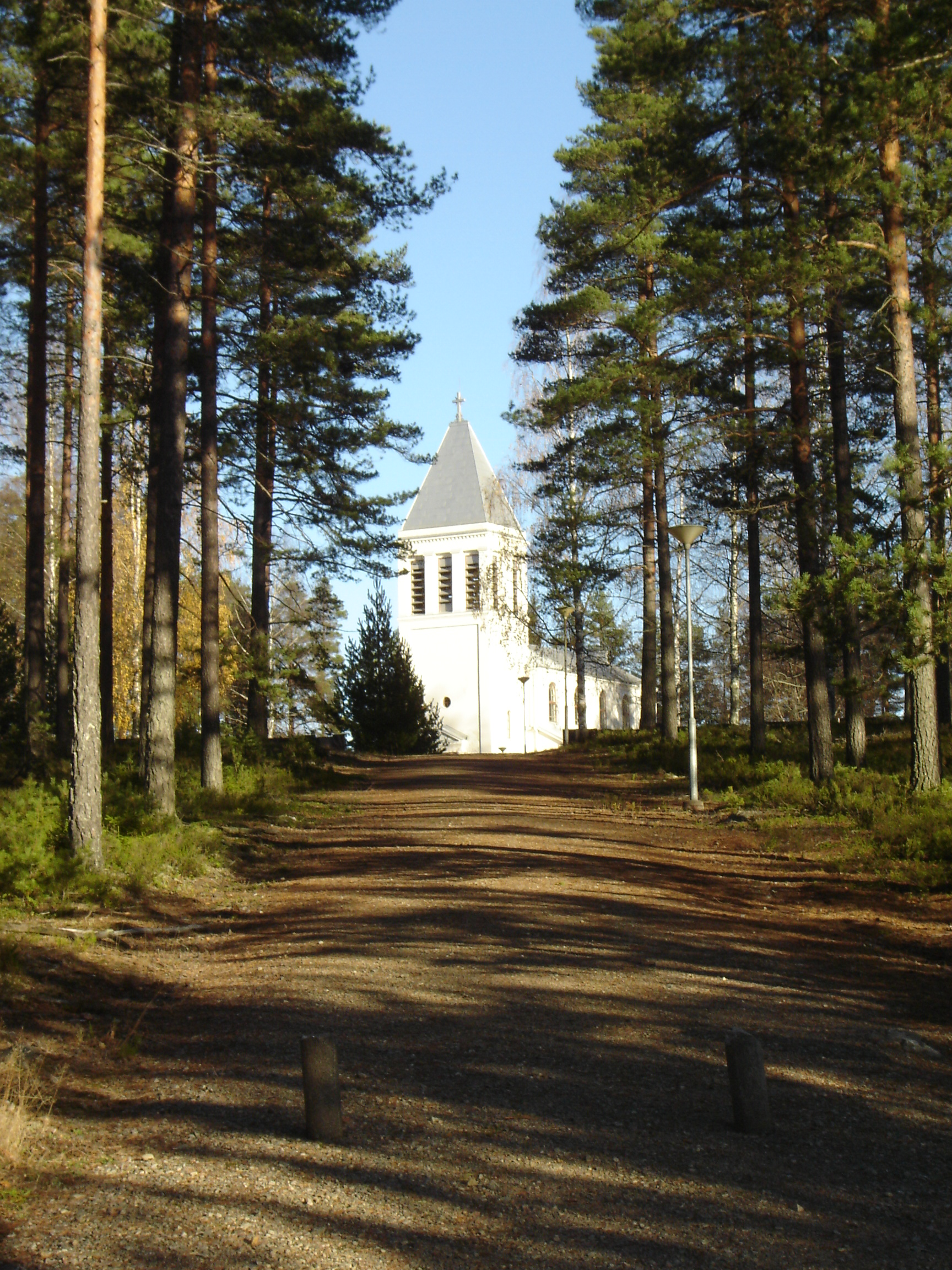 Huhtamo Church in Huittinen, Finland